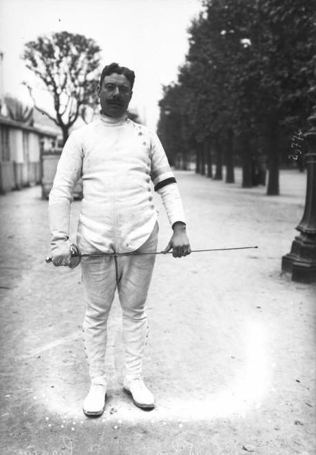 Bernard Gravier in the Tuileries garden